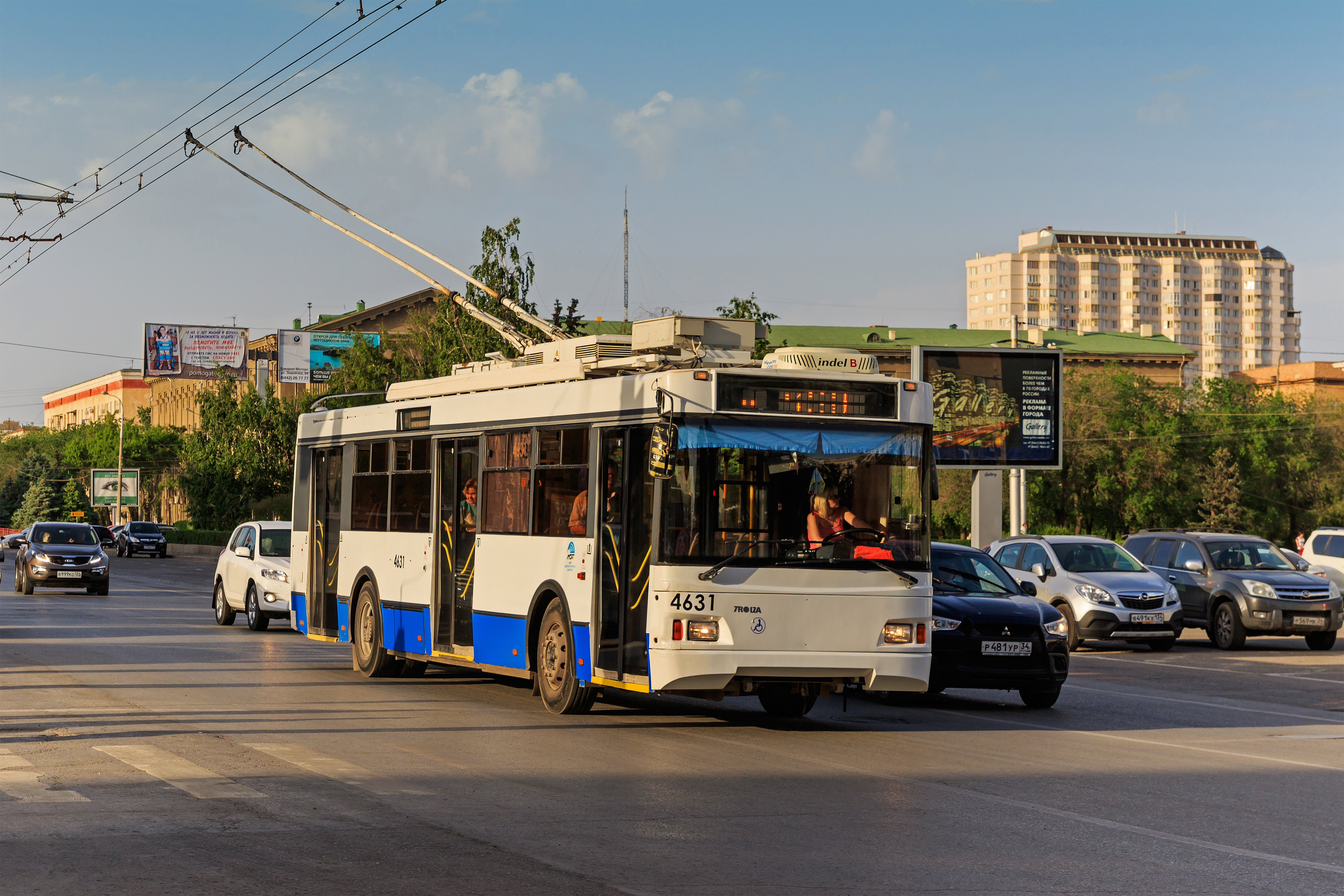 A trolley in Volgograd, Russia